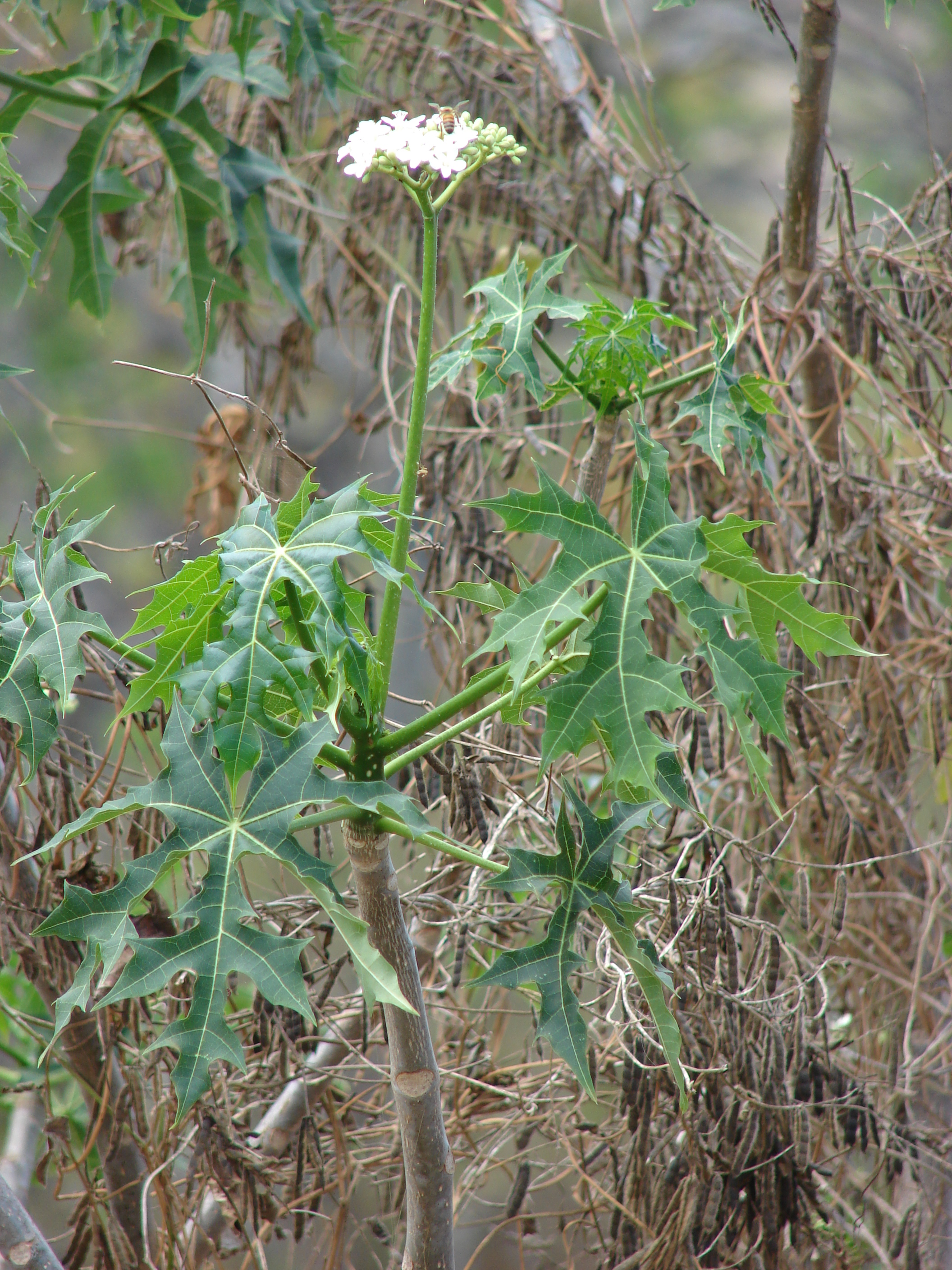 Cnidoscolus aconitifolius (Spinach tree, chaya) Flowers and leaves at Ulupalakua, Maui, Hawaii. June 01, 2009 #090601-8713 Image Use Policy Also known as Jatropha aconitifolia.